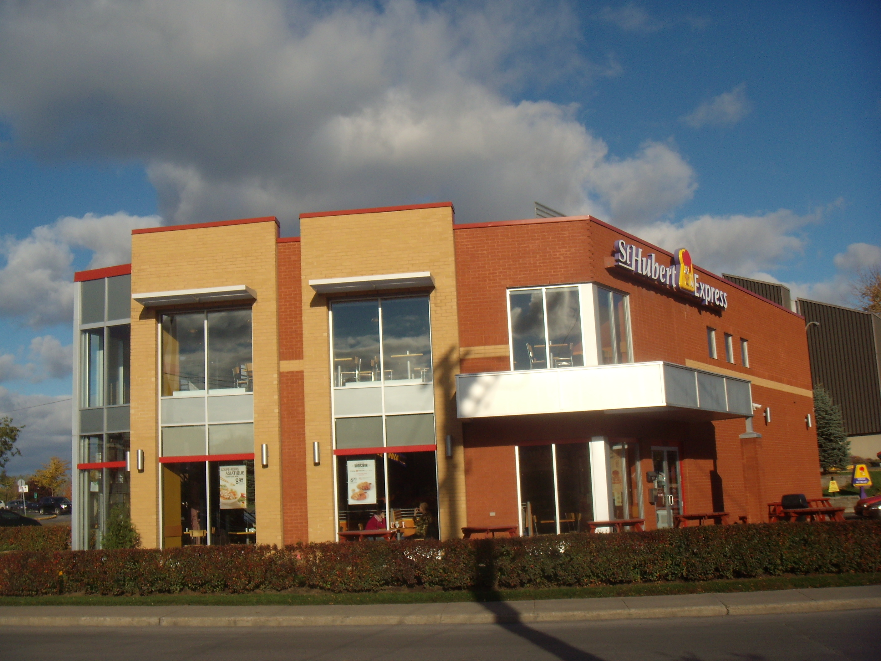 St-Hubert Express restaurant photographed in Montreal, Quebec, Canada.